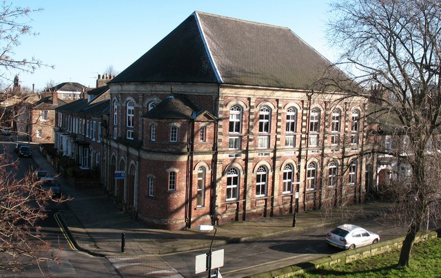 Former chapel, Victor Street. This was formerly the Victoria Bar Primitive Methodist Chapel, built 1880 and now converted to residential use.